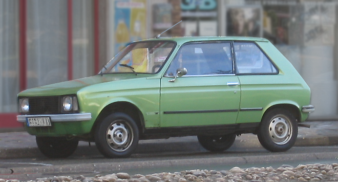 Citroën LN Personal picture